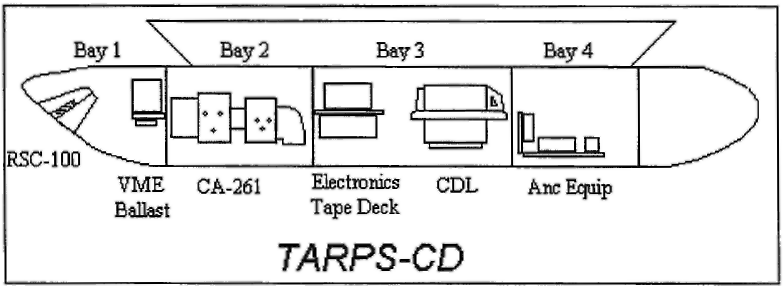 Drawing of the U.S. Navy Tactical Airborne Reconnaissance Pod System Completely Digital (TARPS-CD) pod.